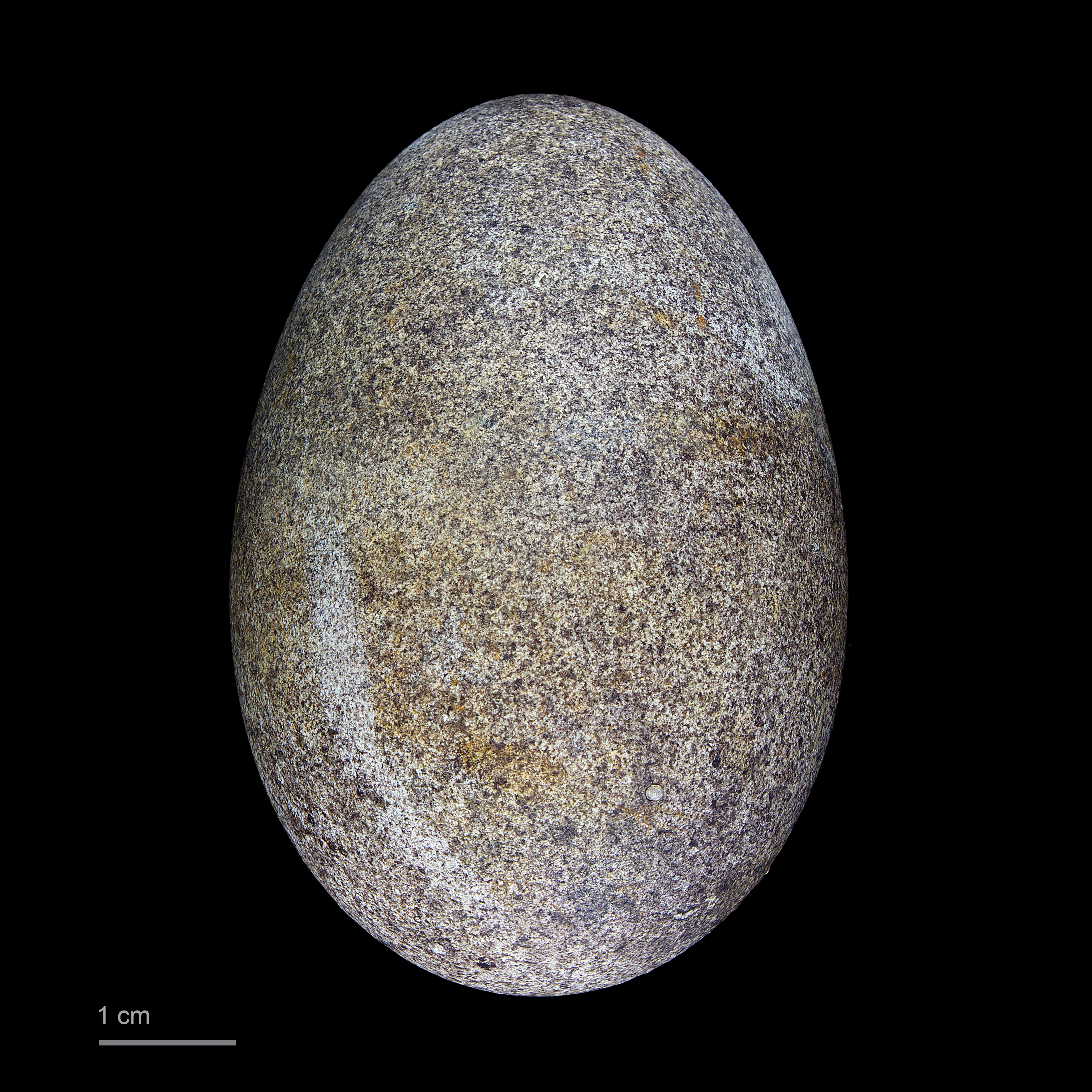 Egg of red-billed tropicbird Collection of Jacques Perrin de Brichambaut.